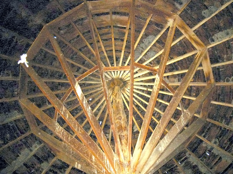 Pete French Round Barn, in southeast Oregon, USA. Interior shot revealing unique roof construction. Photograph by Pete Forsyth, June, 2003.